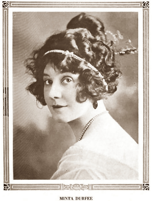 Actress Minta Durfree